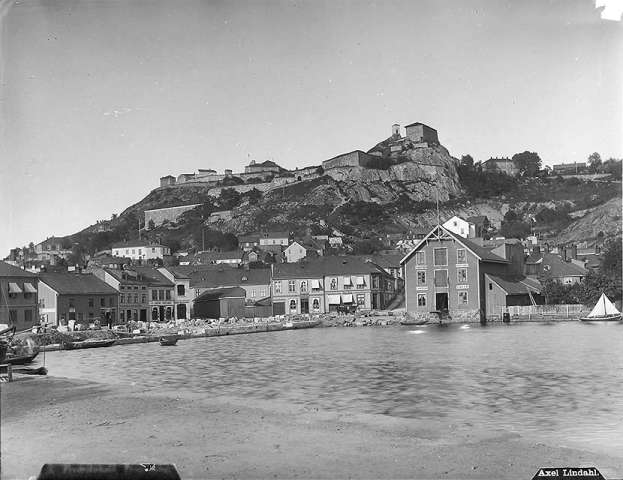 The city of Halden and fortress of Fredriksten. Photography by Axel Lindahl, approximately 1890.